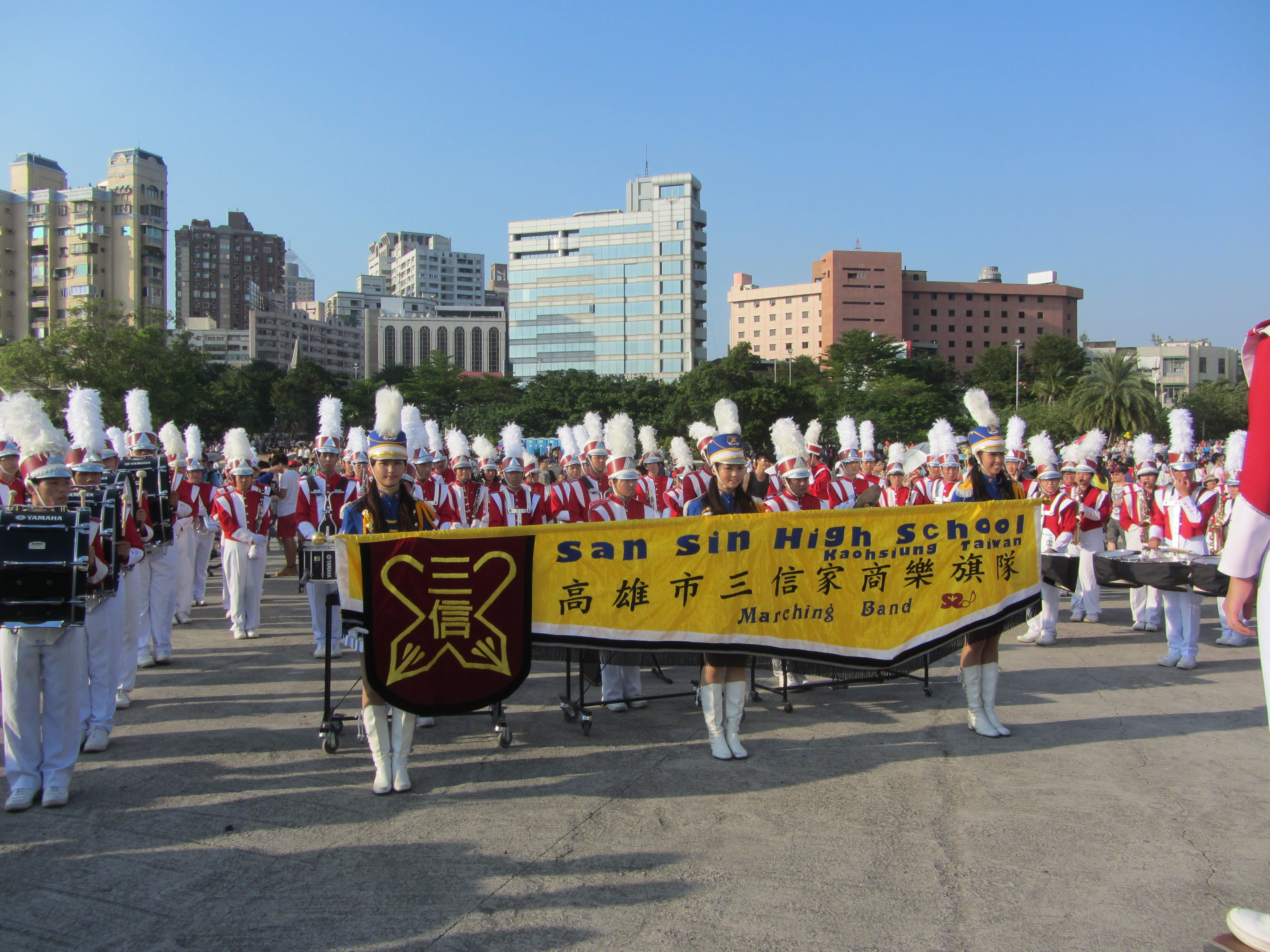 San Sin High School Marching Band.